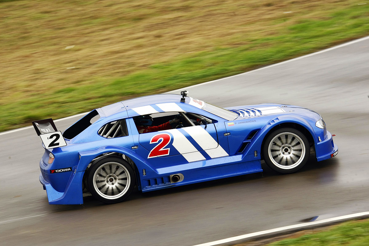 МитДжет 2.0